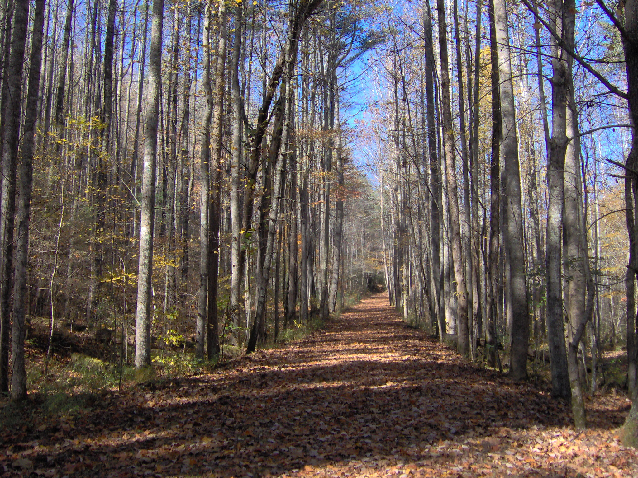 The Hazel Creek Trail approaching what was once the hamlet of Medlin in the Great Smoky Mountains of the U.S. state of North Carolina.